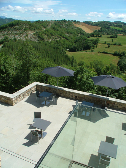 Torre di Moravola